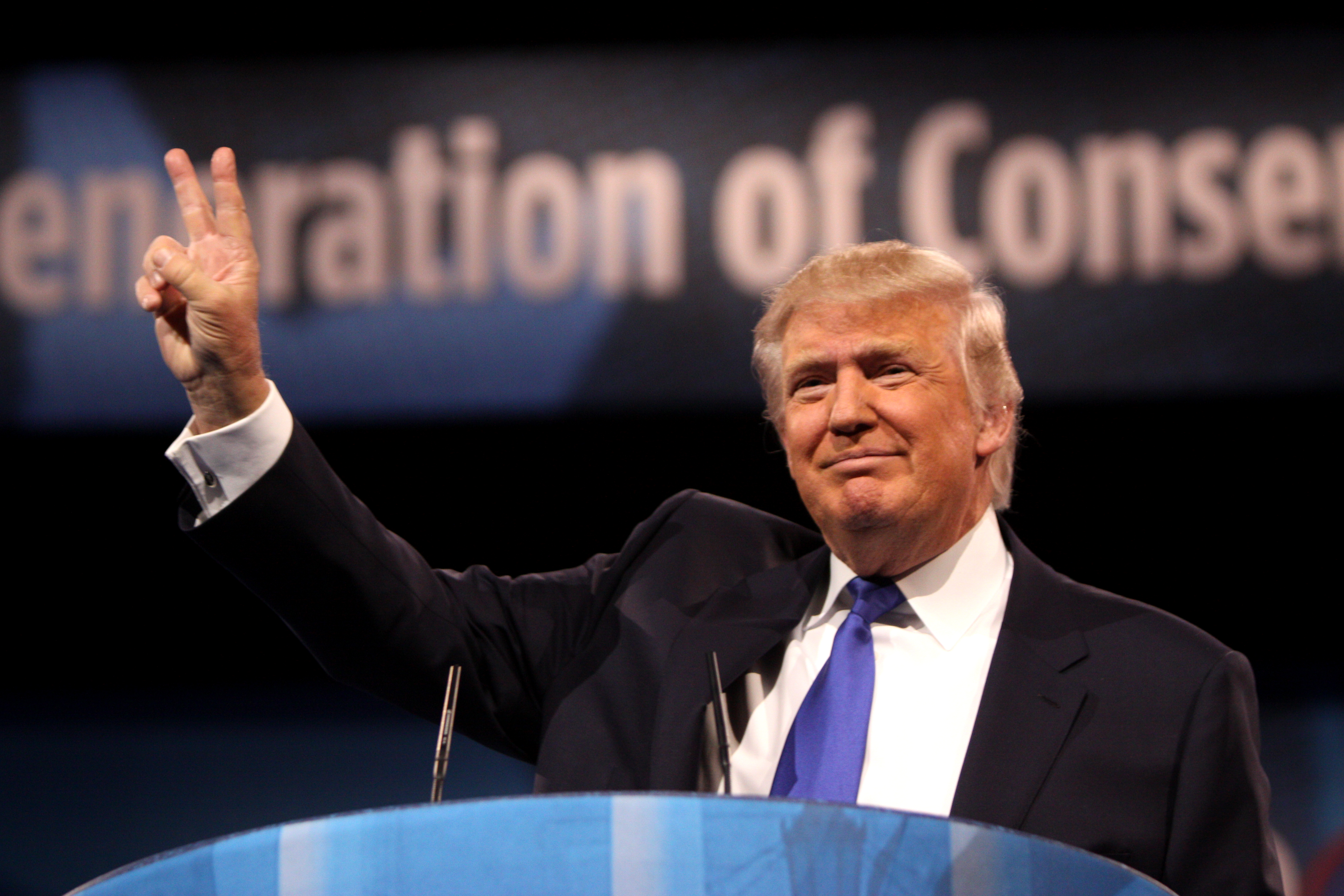 Donald Trump speaking at the 2013 Conservative Political Action Conference (CPAC) in National Harbor, Maryland.